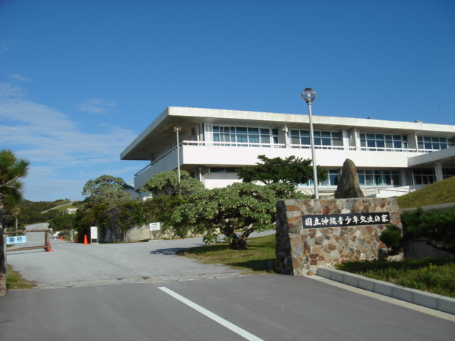 National Okinawa Youth Friendship Center "Marine Blue Tokashiki"